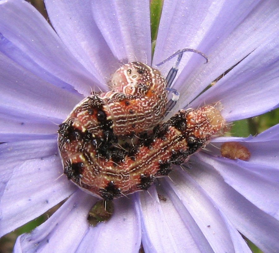 Noctuid moth, Chloridea virescens (Tobacco Budworm Moth - Hodges#11071), on chickory flower. Size: 20 mm. Horsham Trail, Montgomery County, Pennsylvania, USA.